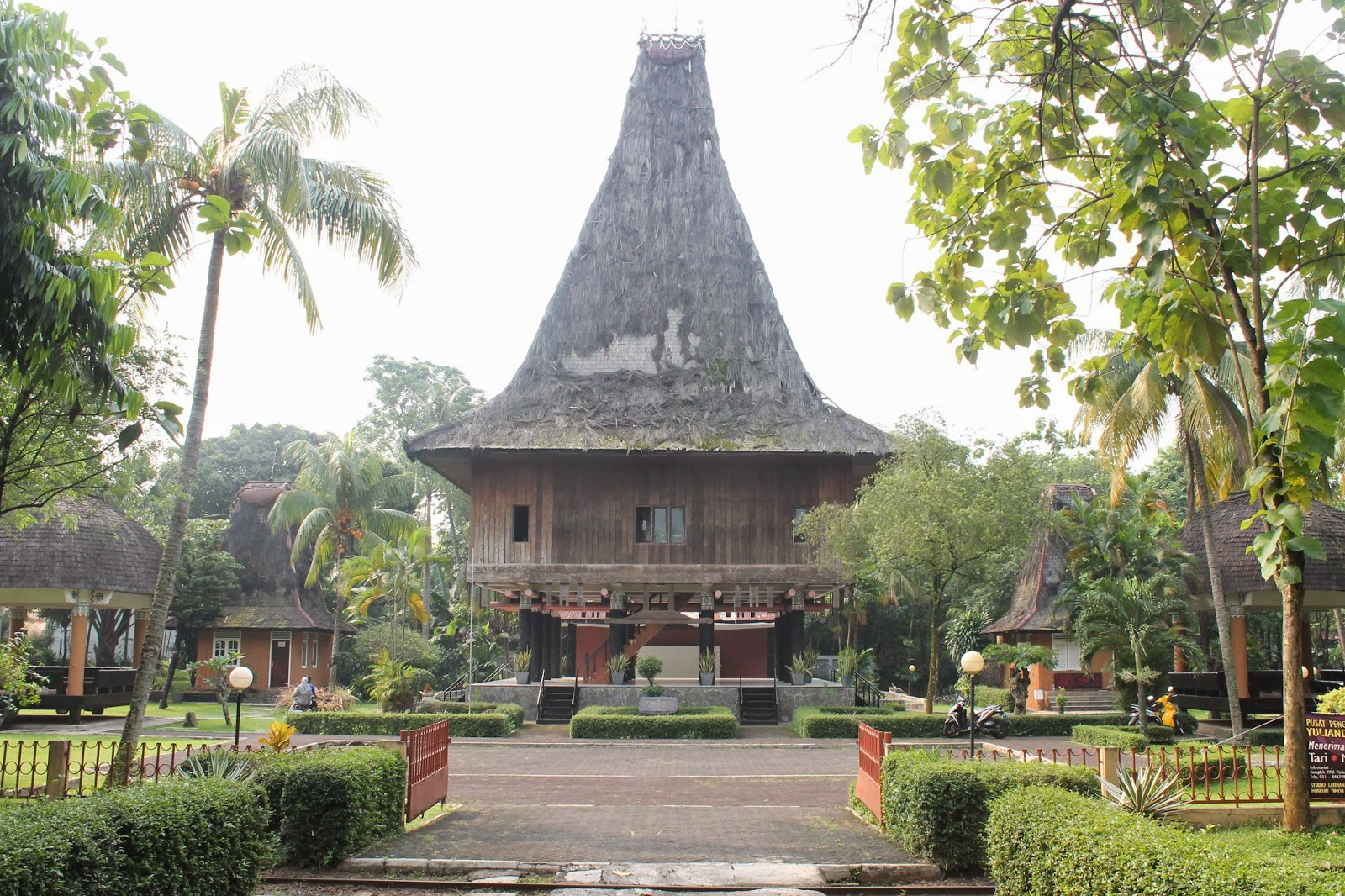 Museum of East Timor on Taman Mini Indonesia Indah. Each province has its own venue in this park, but because East Timor secession this venue wasn't dissolved, instead turned into museum.